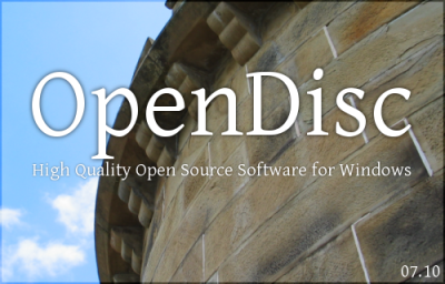 OpenDisc 07.10 Splash Screen